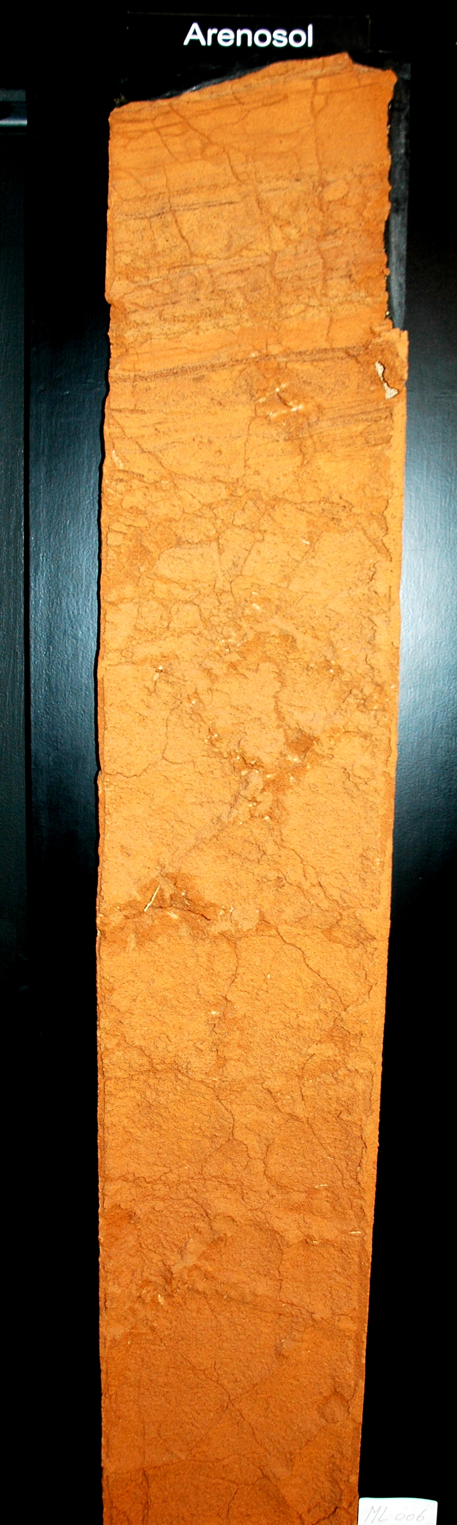 Soil profile of a sandy soil, an Arenosol from Mali